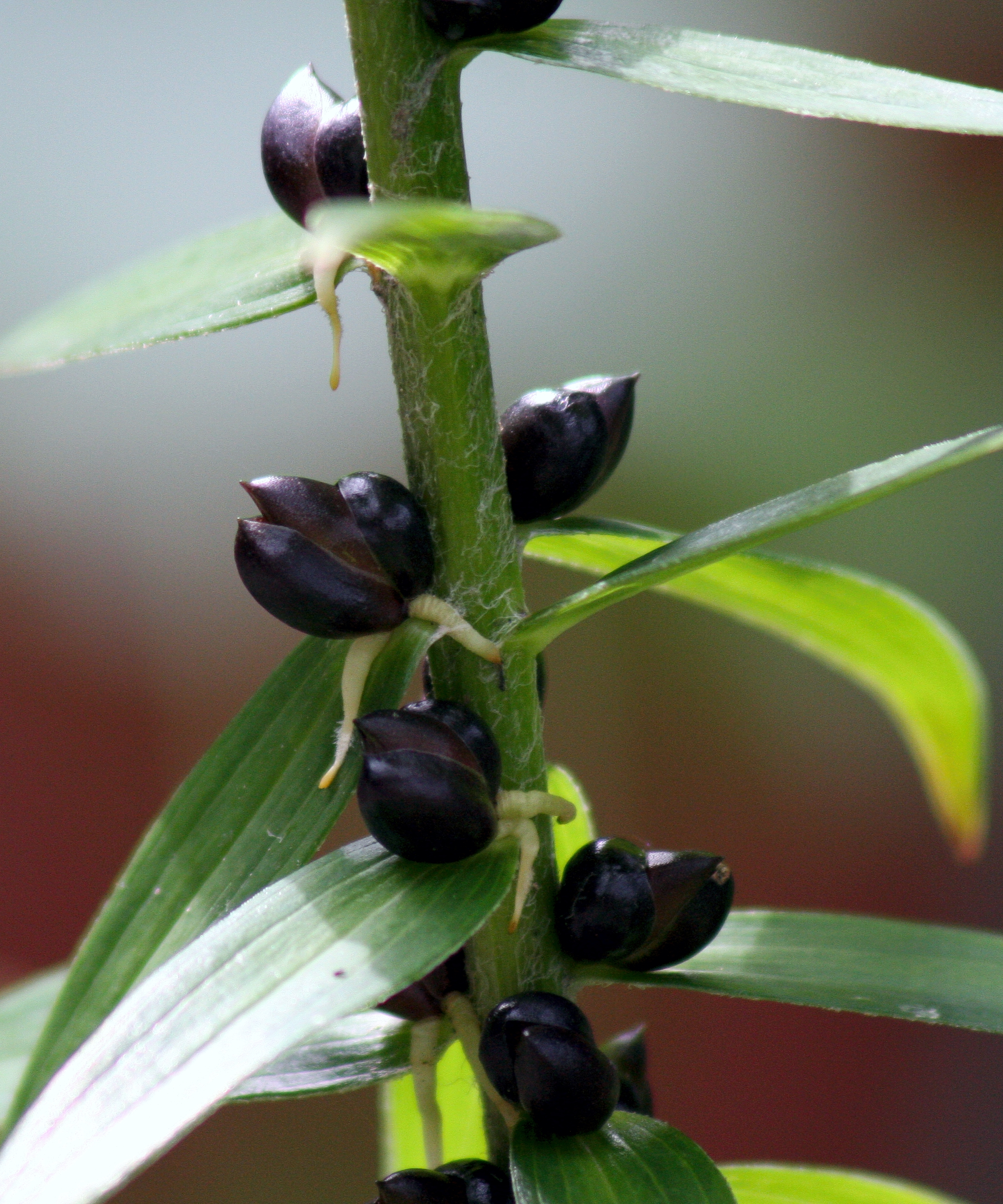 Lilium lancifolium bulbils showing rooting in late summer.